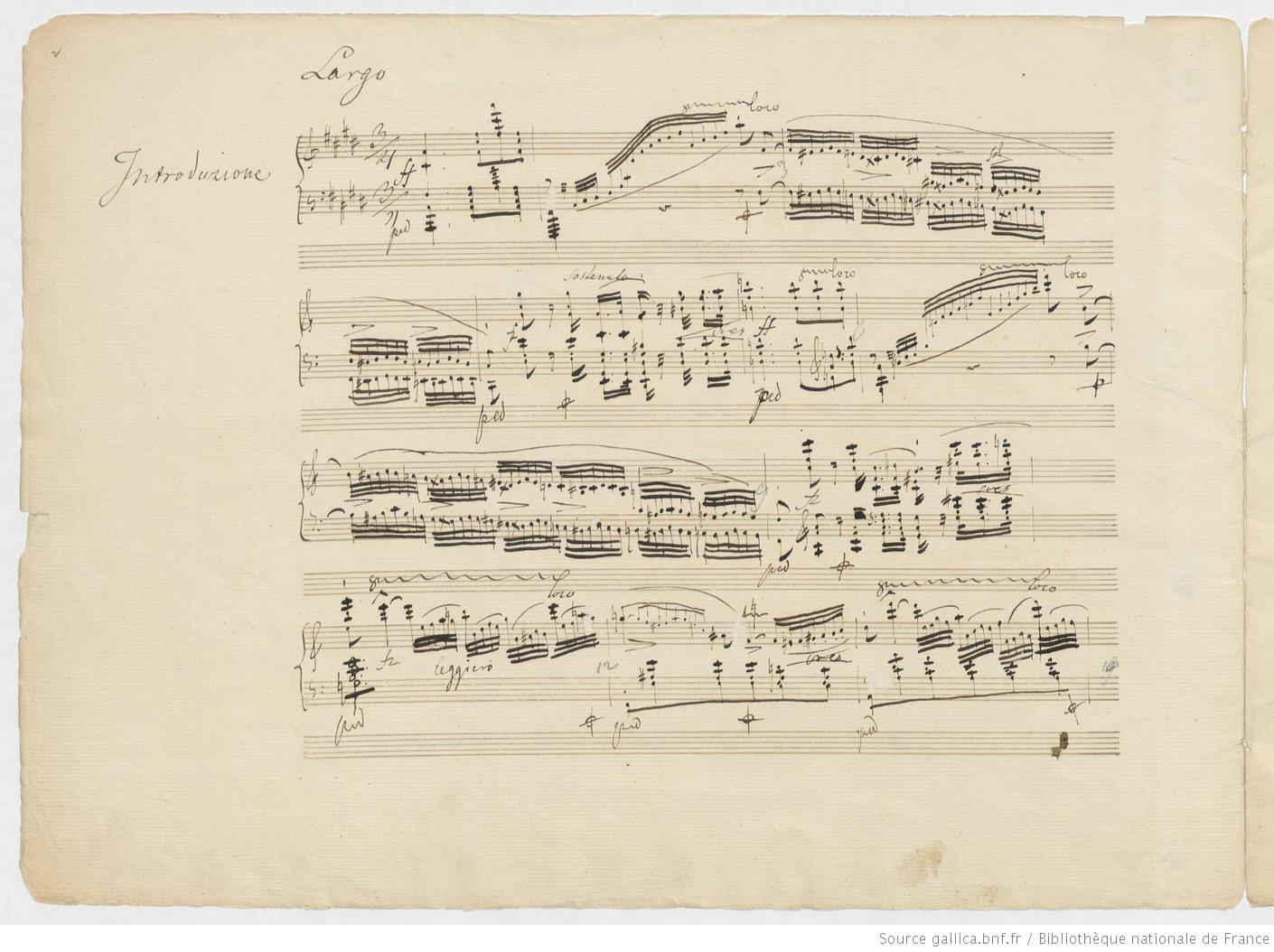 First page of manuscript duo by Chopin and Franchomme of duo on themes from 'Robert le diable'